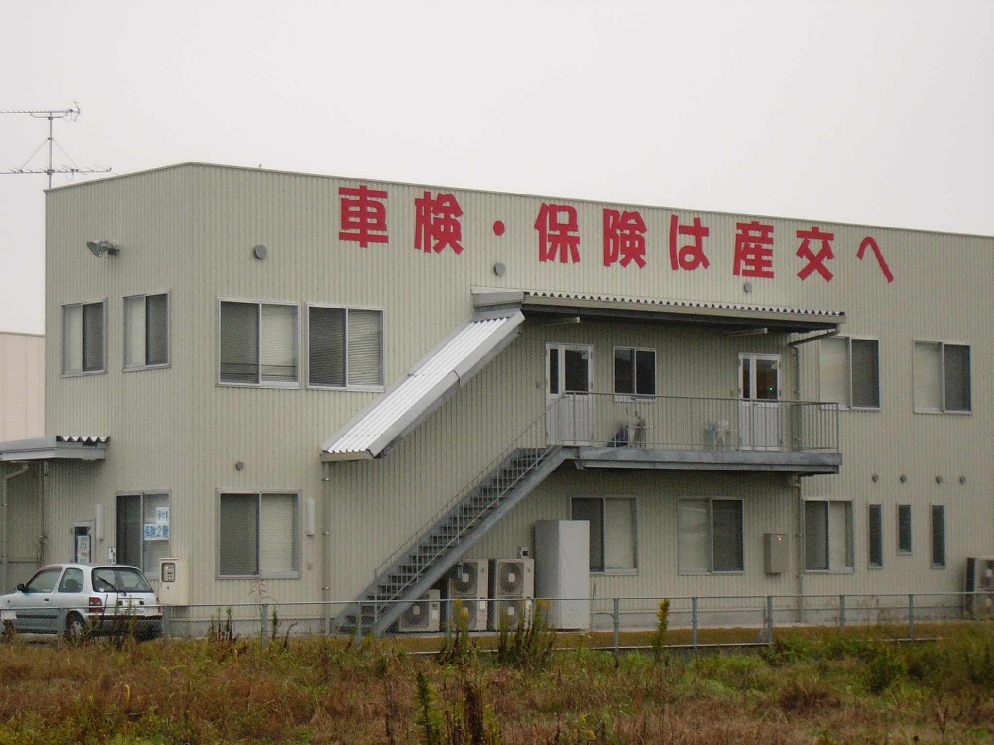 Kyusyusankomaintenance main office